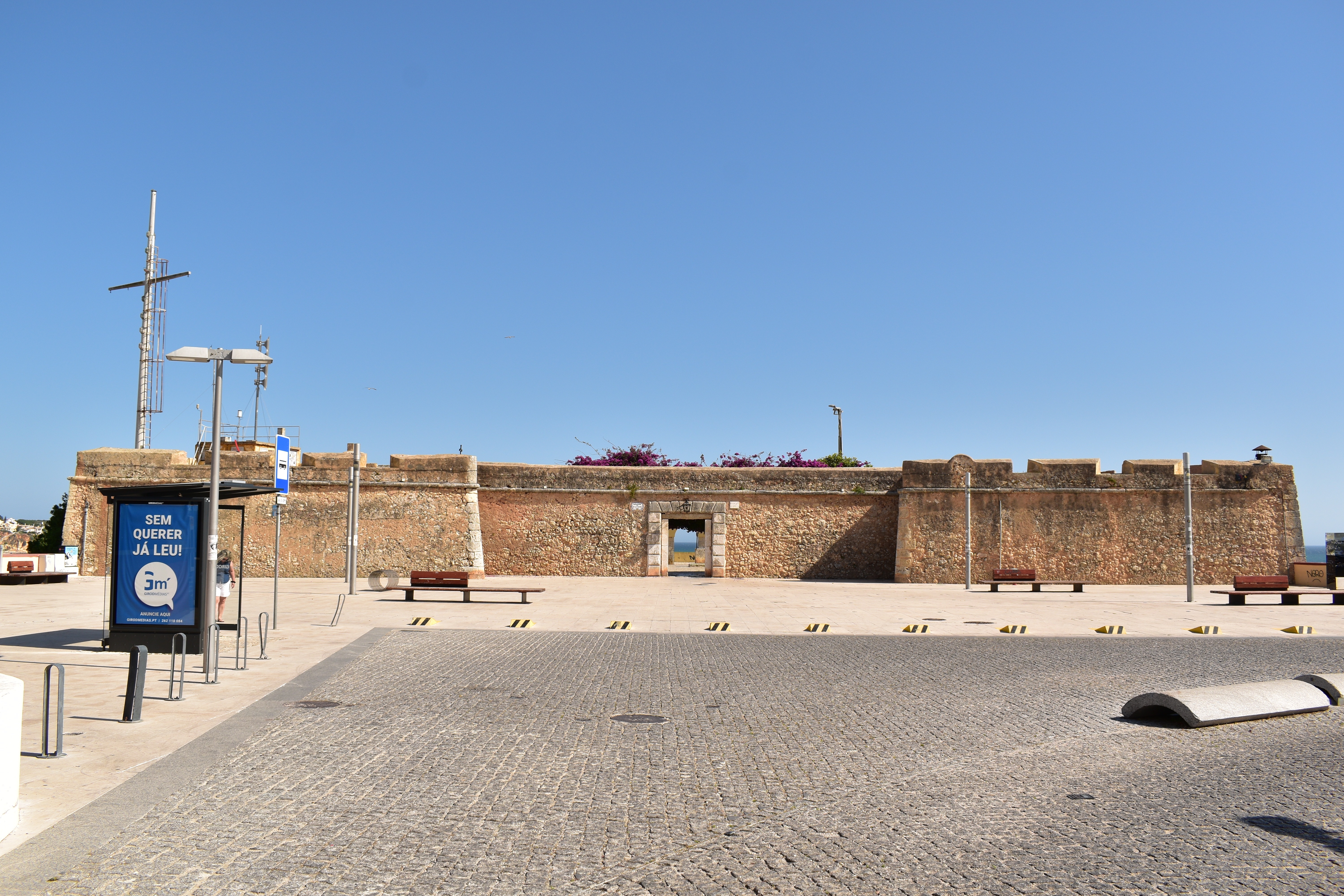 Main facade of Santa Catarina's Fort in Portimão, Algarve - Southern Portugal.